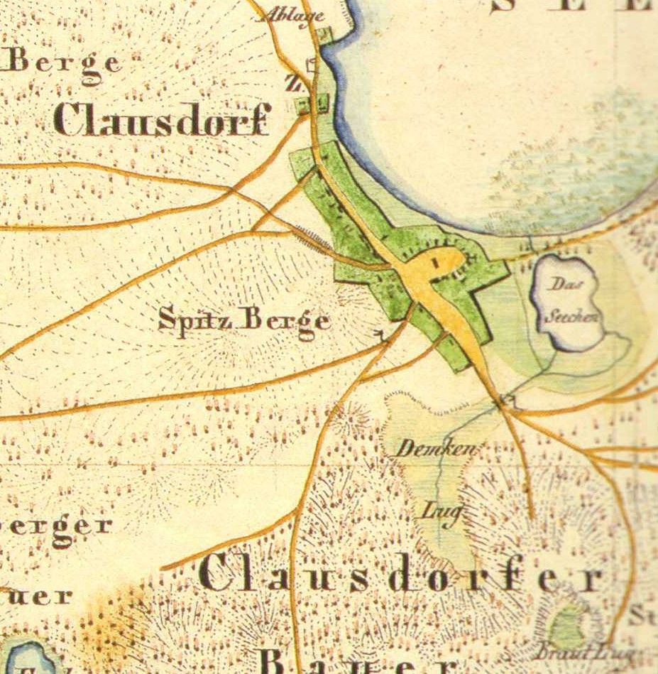 Klausdorf, Gem. Am Mellensee, Lkr. Teltow-Fläming, Brandenburg, Deutschland, Urmesstischblatt von 1841 (Bl. Nr.3846)